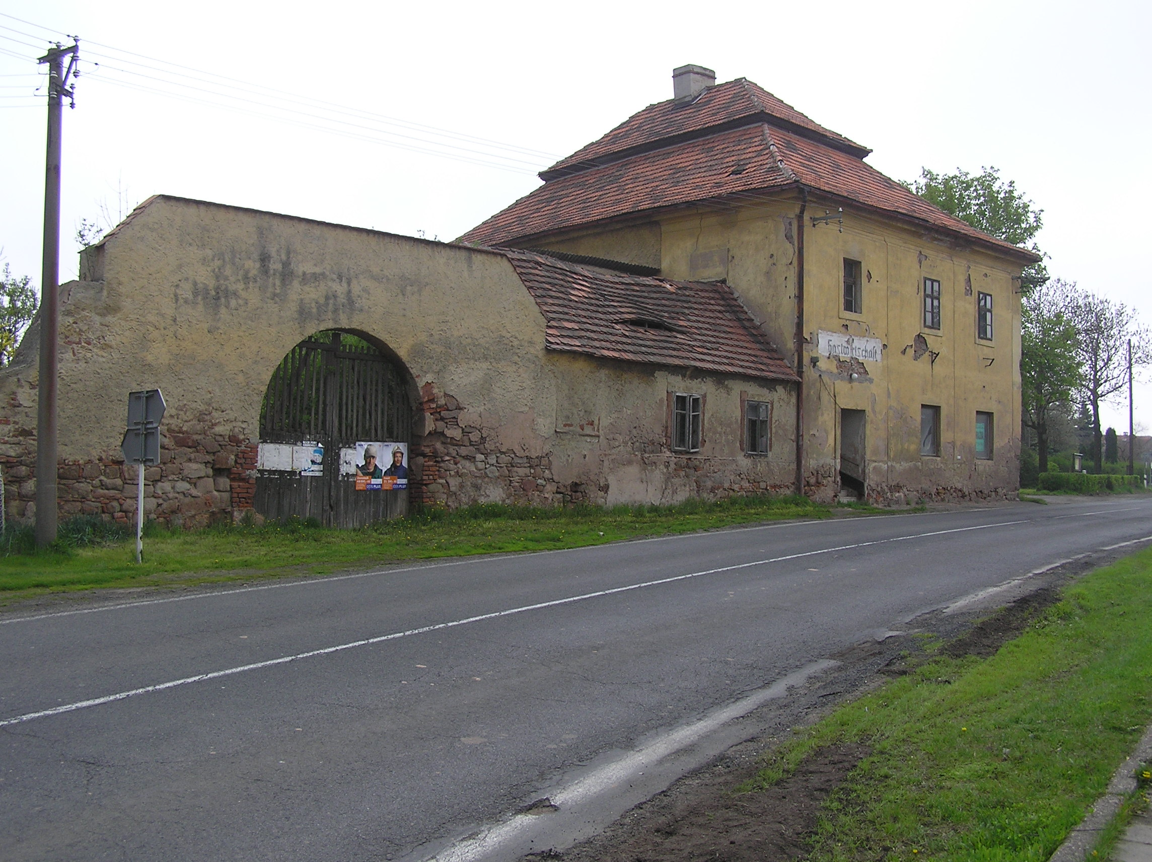 Former Inn in Strojetice